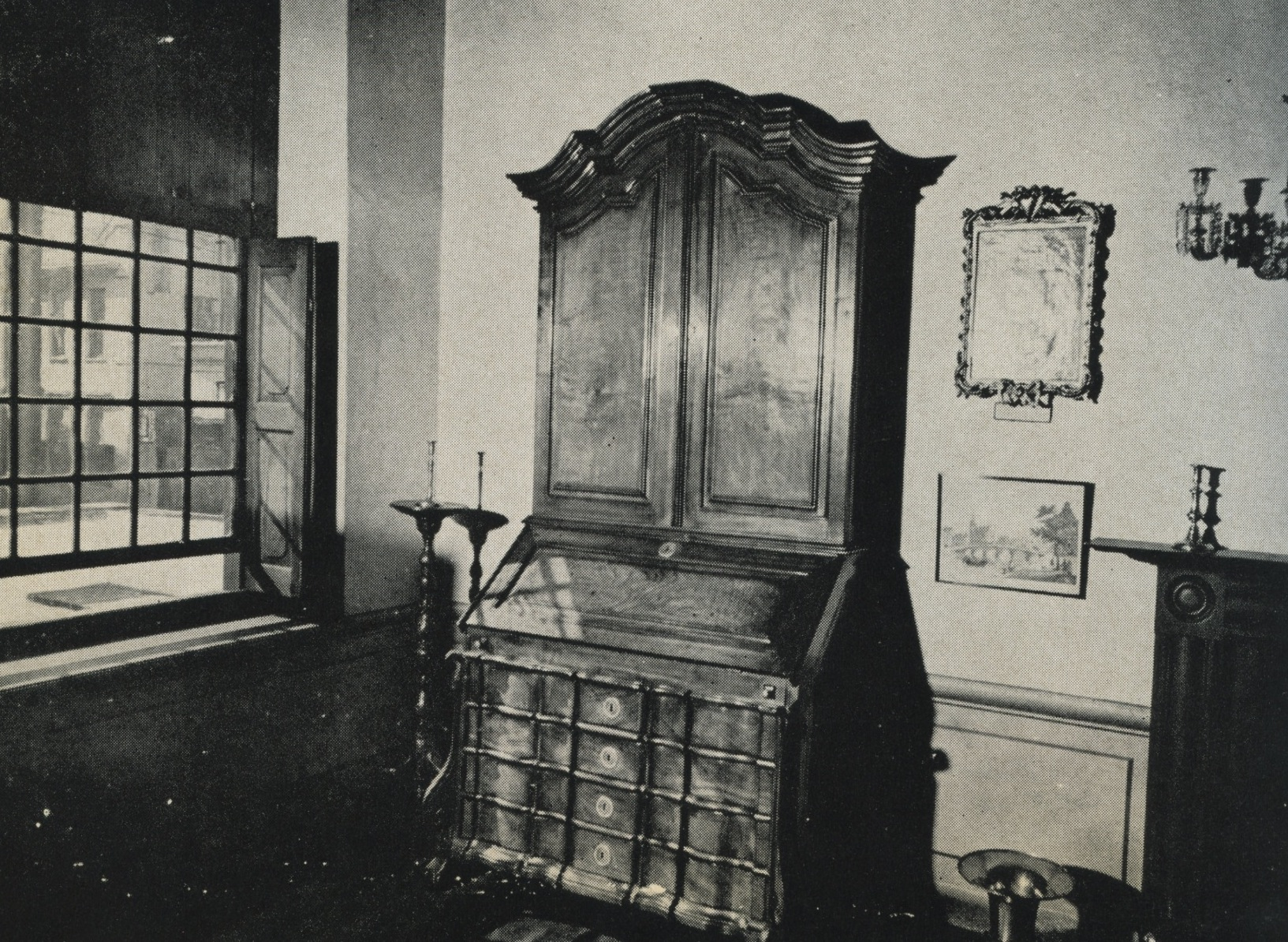 A bureau cabinet of stinkwood and chestnut (height 252 cm, width 133 cm, depth 70 cm) has Cape silver keyplates dating from circa 1800. This bureau was made at the Cape of Good Hope (1750-1760) and stands in the drawing room of Koopmans-de Wet House, Cape Town.